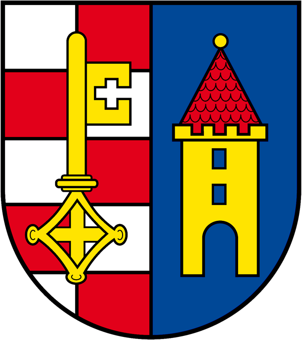 Coat of arms of Dill